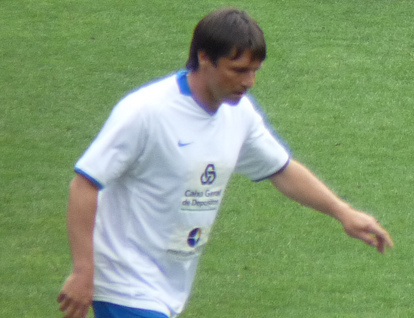 Laurent Fournier